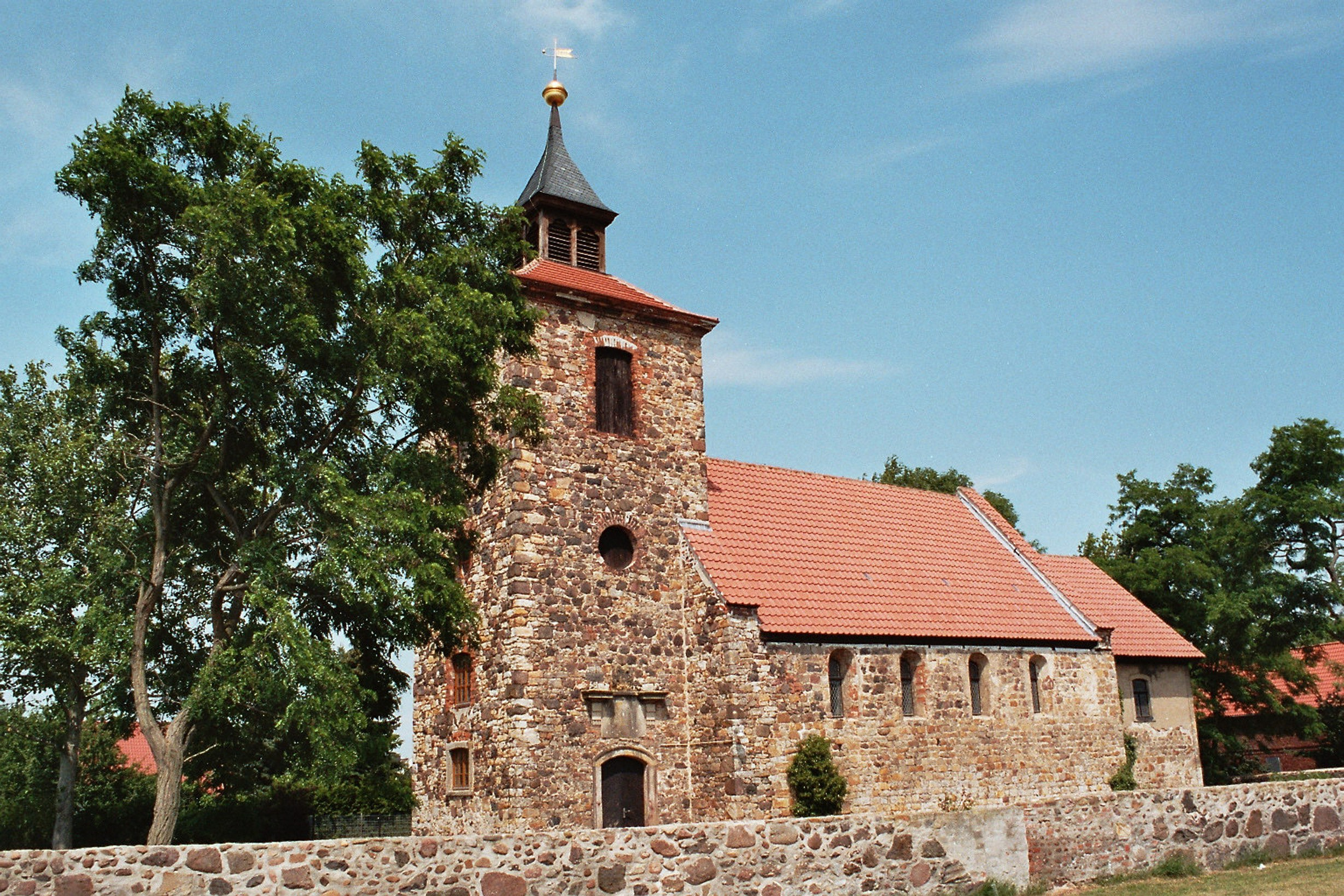 Woltersdorf (Biederitz), the village church This is a photograph of an architectural monument. 05729